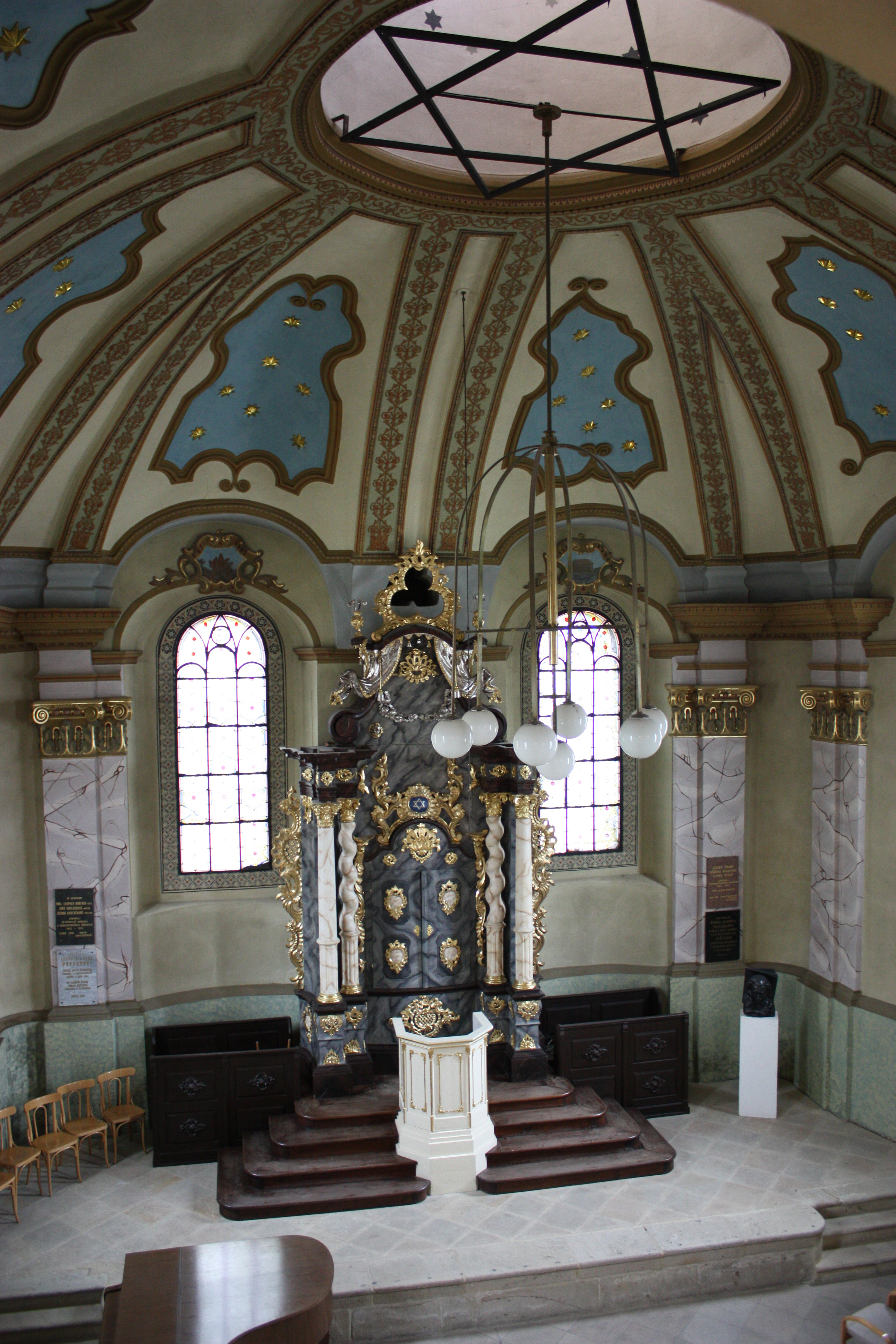 Interior of synagogue in Rakovník, Central Bohemia.